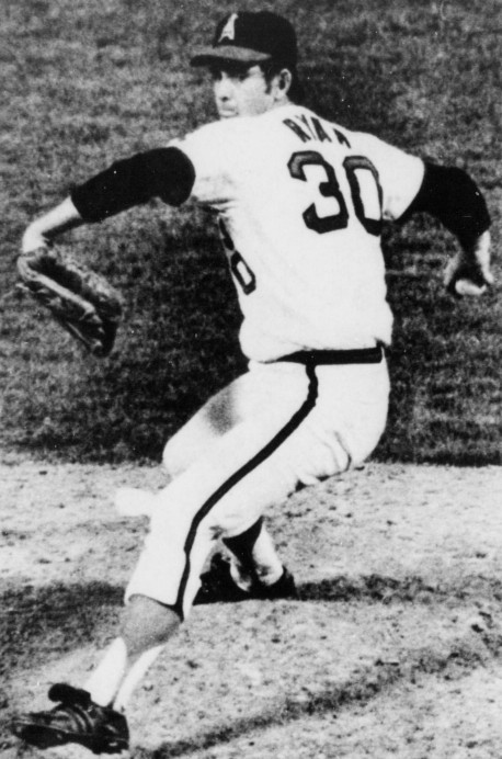 Professional baseball player Nolan Ryan